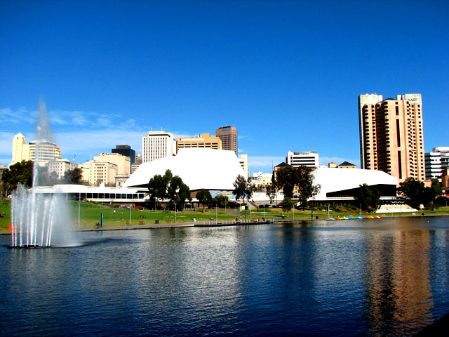 Adelaide Festival Centre from the north bank of the River Torrens.